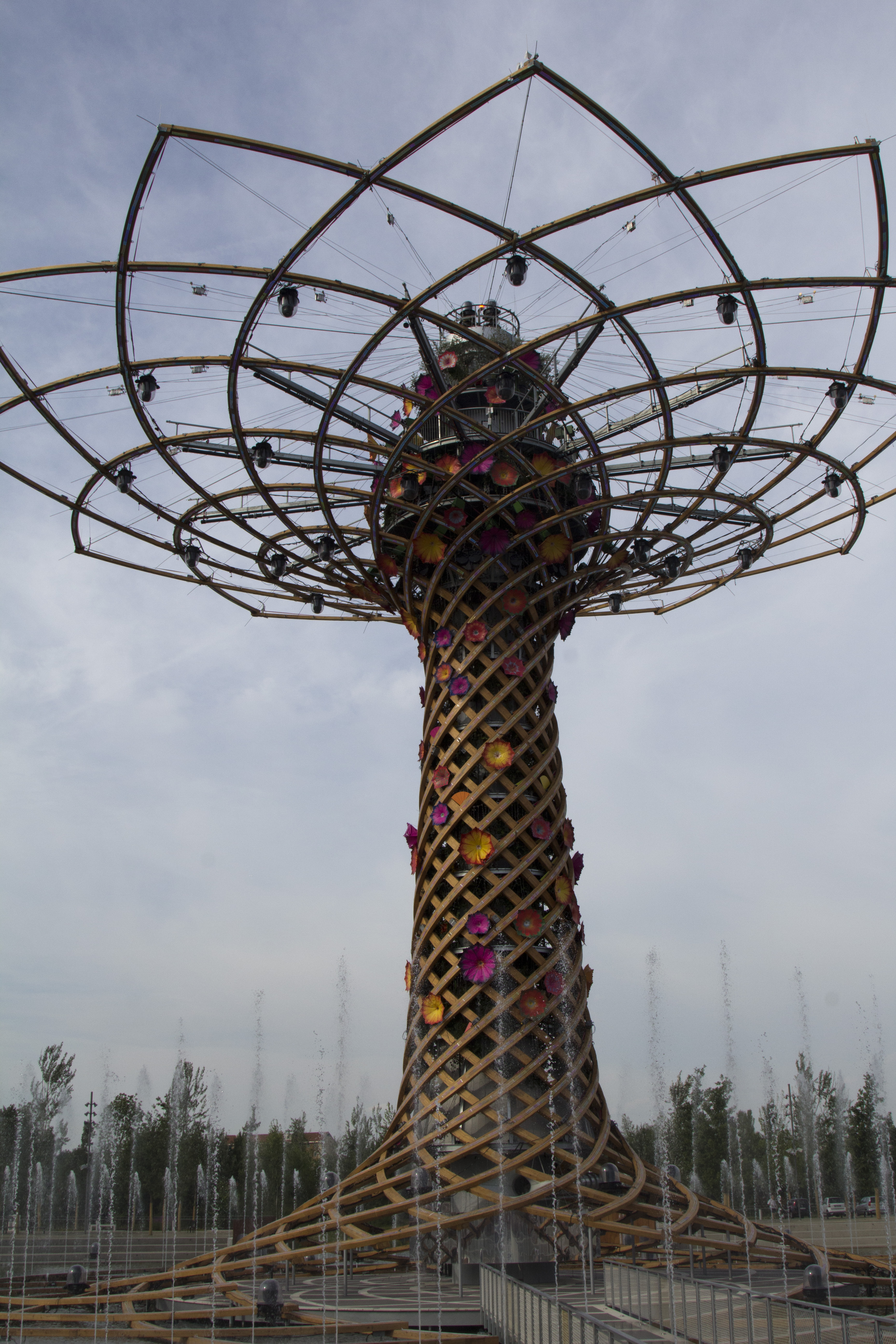 EXPO 2015 Milan